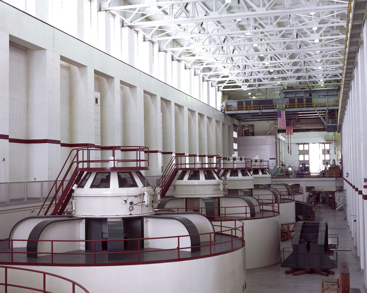 View of Shasta Dam power station interior, CA